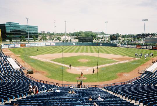 14:43, 28 June 2006 . . Dakern74 . . 540×365 (51,177 bytes) ( CopyrightedFreeUse-User|Dakern74 View of field at Lynx Stadium, Ottawa, taken Jun 25 2006)